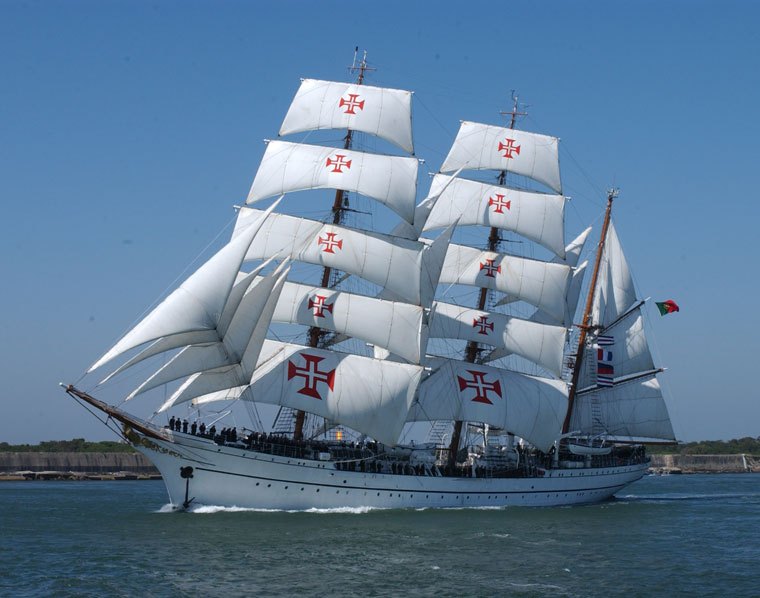 NRP Sagres - school ship of the Portuguese Navy - is the third ship with this name in the Portuguese Navy, so is also known as Sagres III